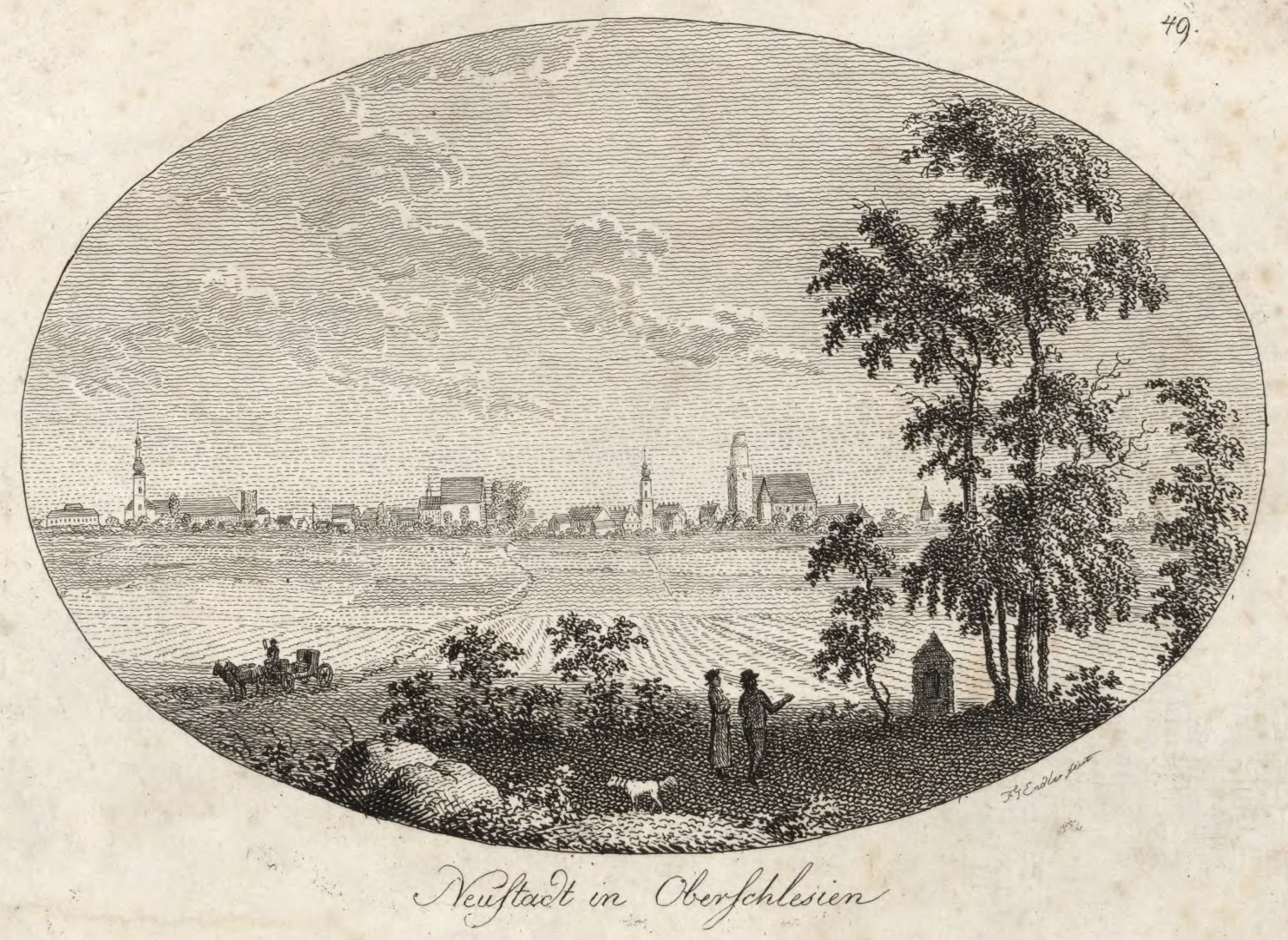 View of Neustadt in Upper Silesia in 1808.